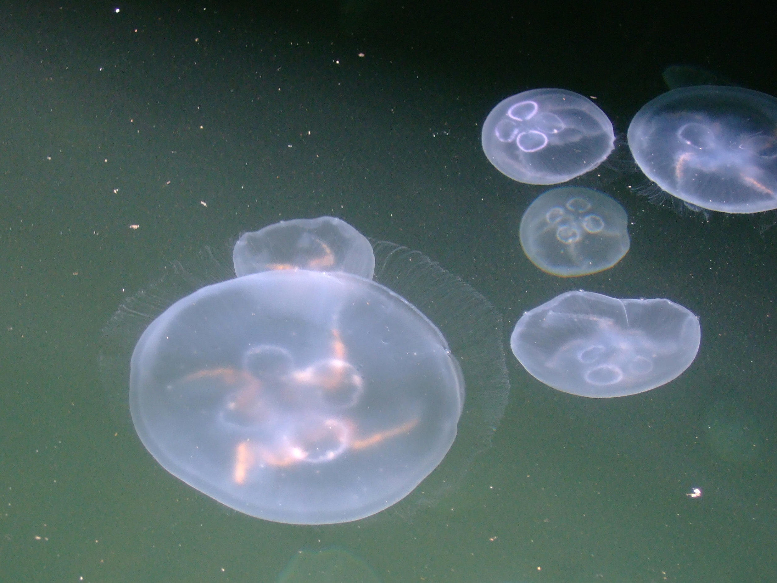 Moonjelly in Flensburg.